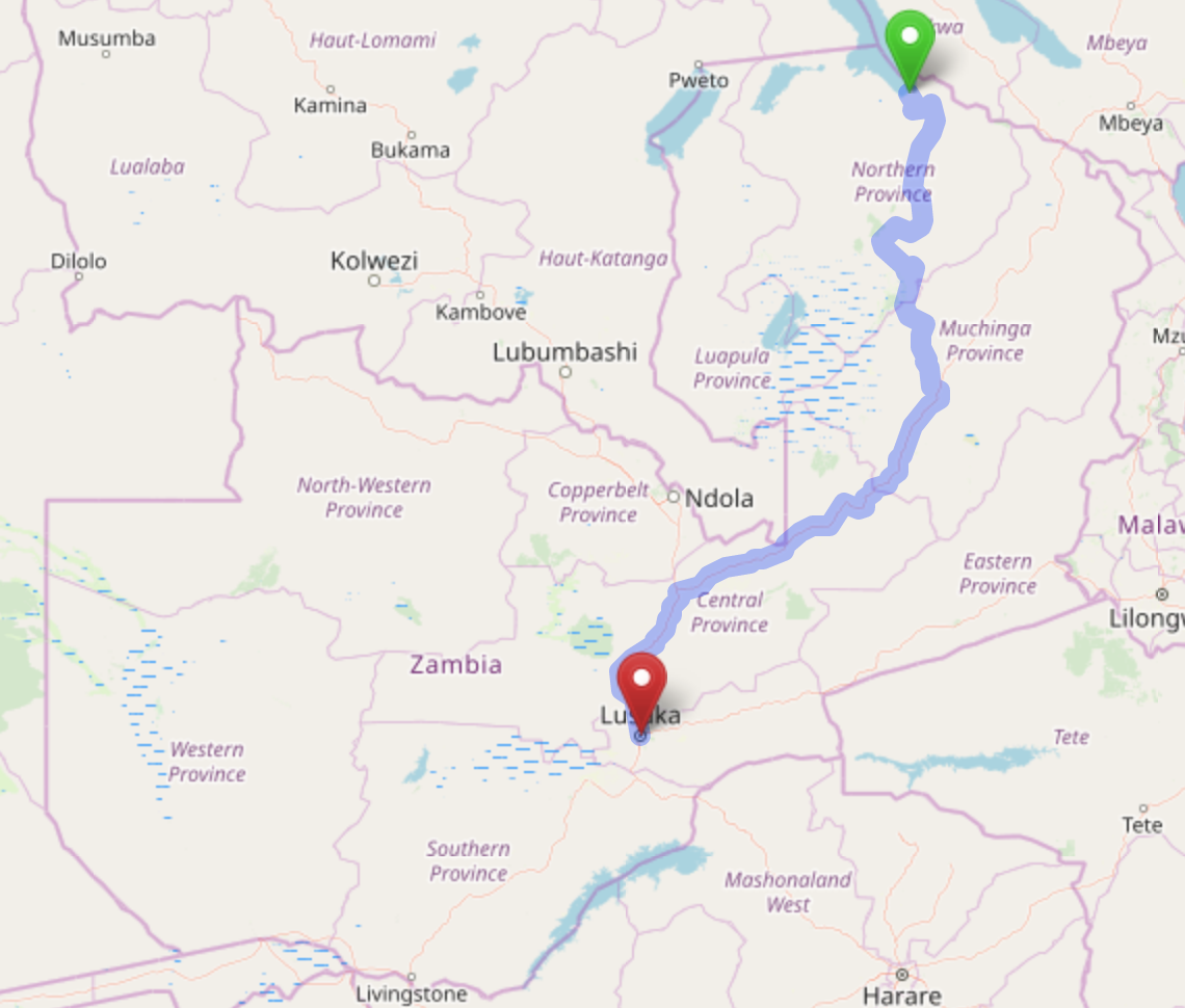 Map of the Great North Road in Zambia This map of Zambia was created from OpenStreetMap project data, collected by the community. This map may be incomplete, and may contain errors. Don't rely solely on it for navigation.